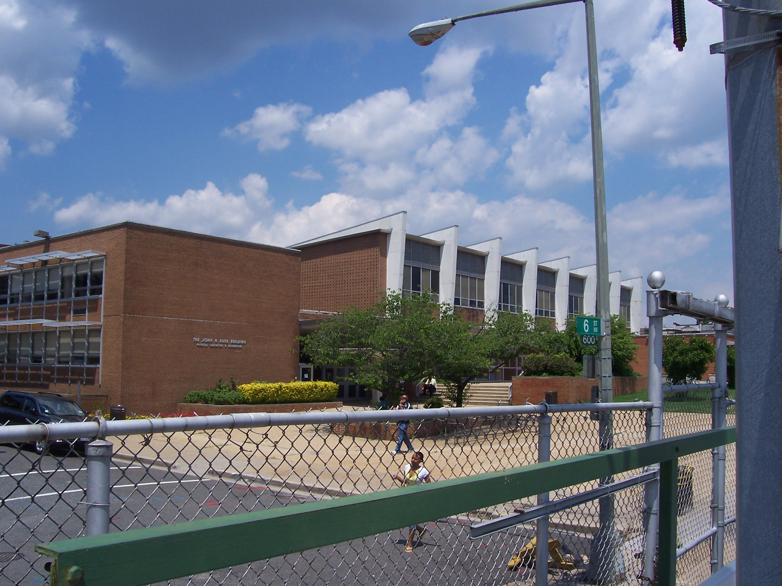 A picture of the outside of Burr Gymnasium, a building which is part of Howard University in Washington, D.C.`